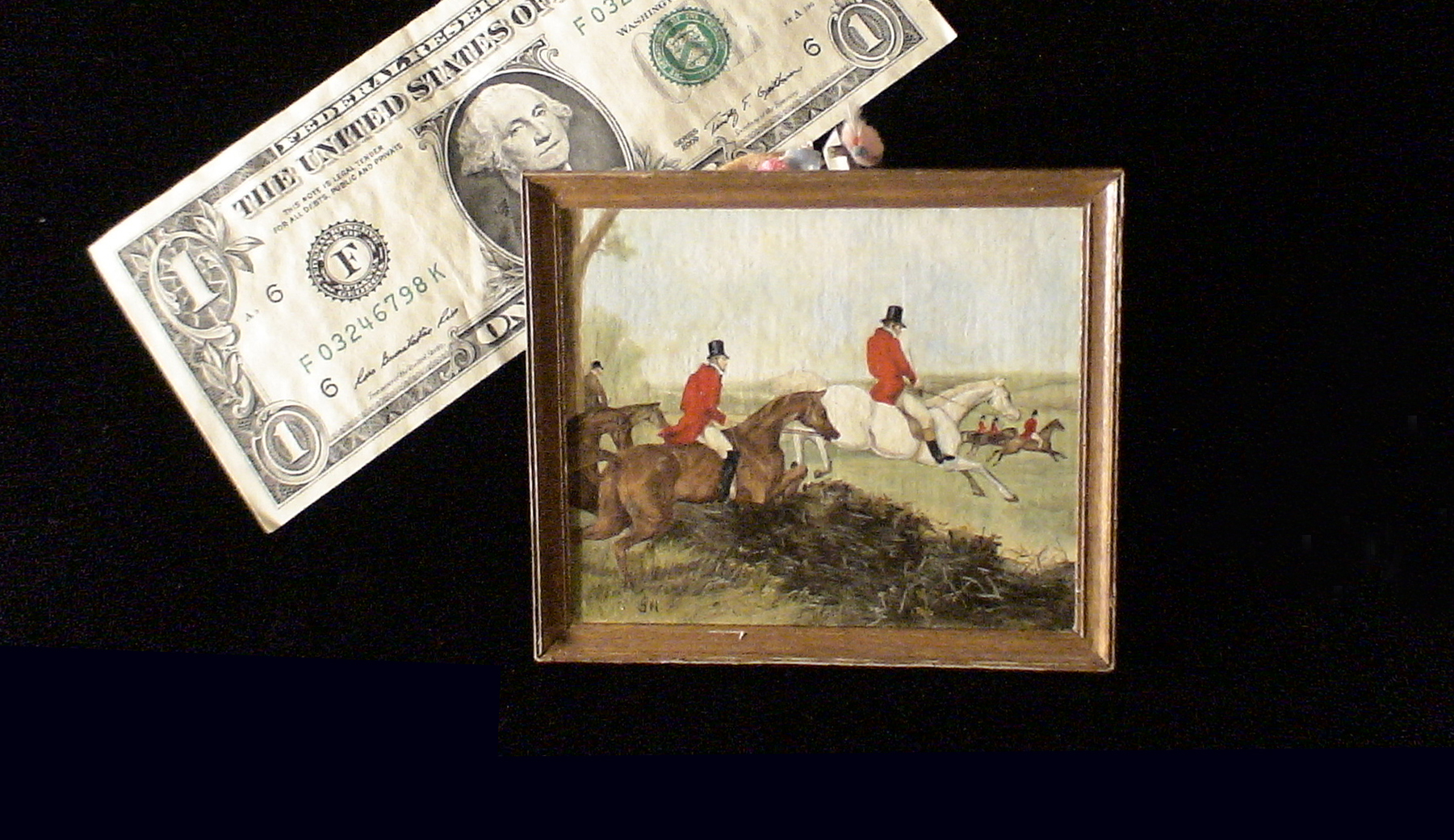 3 inch by 2.5 inch oil painting created with brushes containing 5-10 bristles.